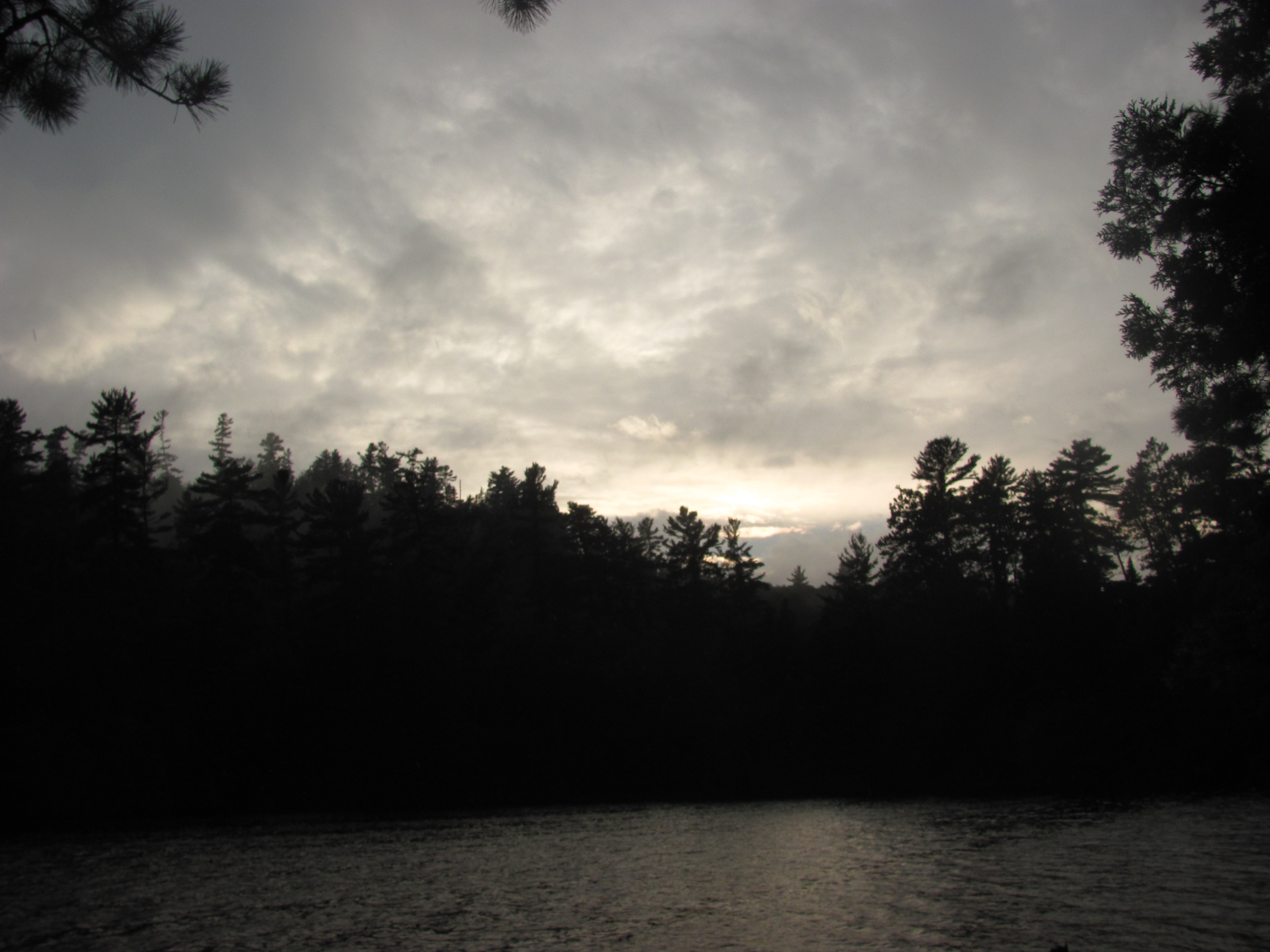 Foggy morning on a campsite on Cross Lake, Temagami, Ontario, summer 2017.